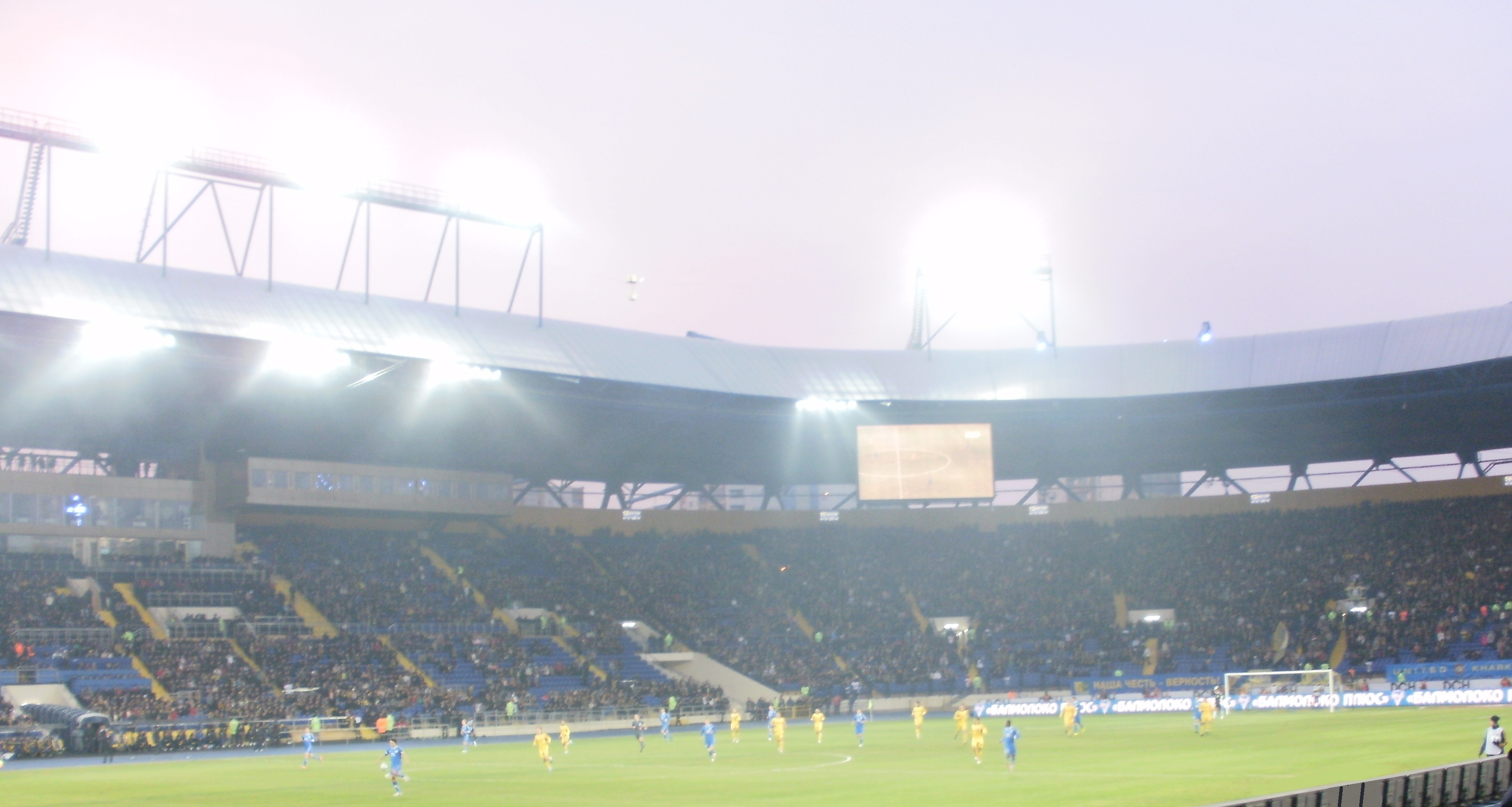 Stadium Metalist